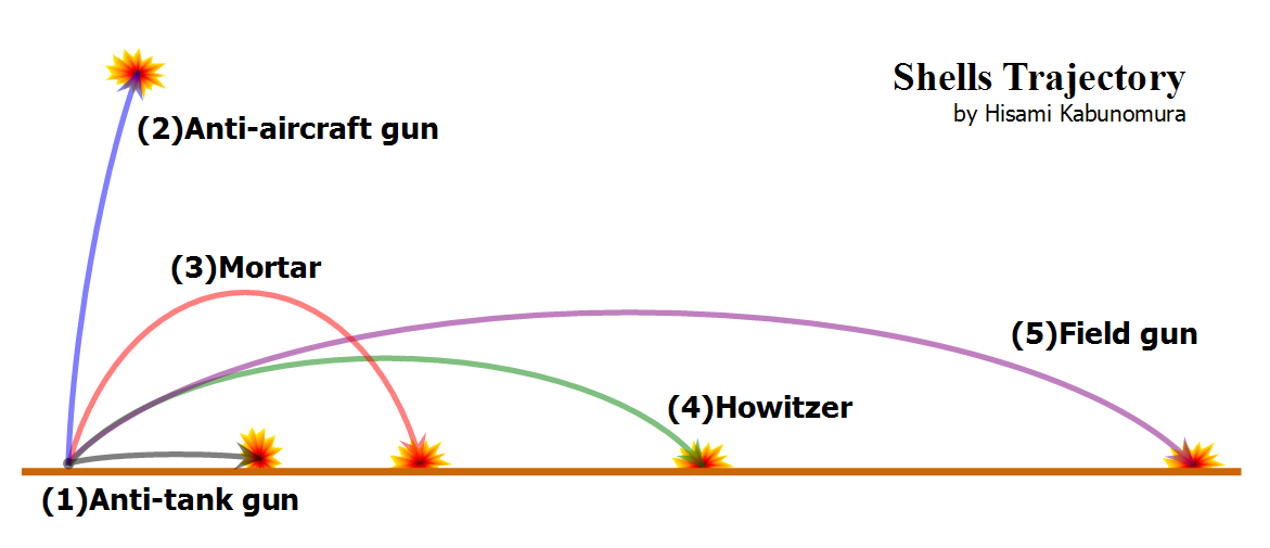 trajectory illsutration